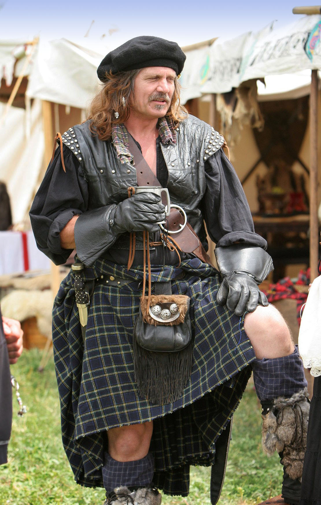 A belted plaid (rather than a kilt) as worn by a reenactor of Scottish history.